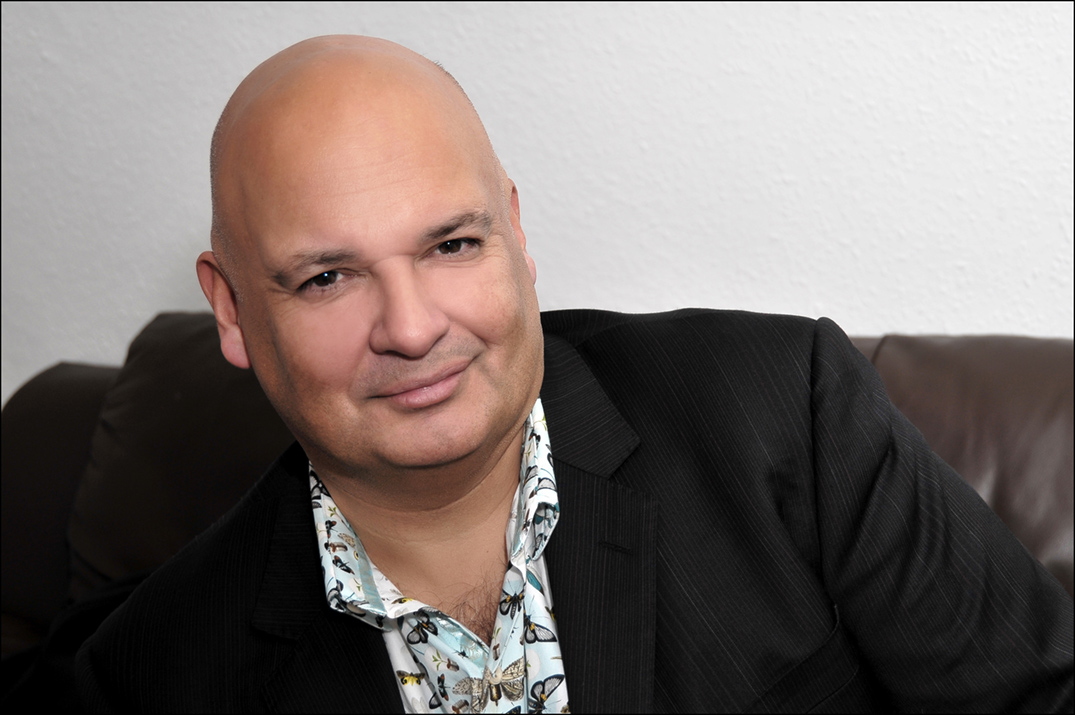 Picture of Jake Leith 2015